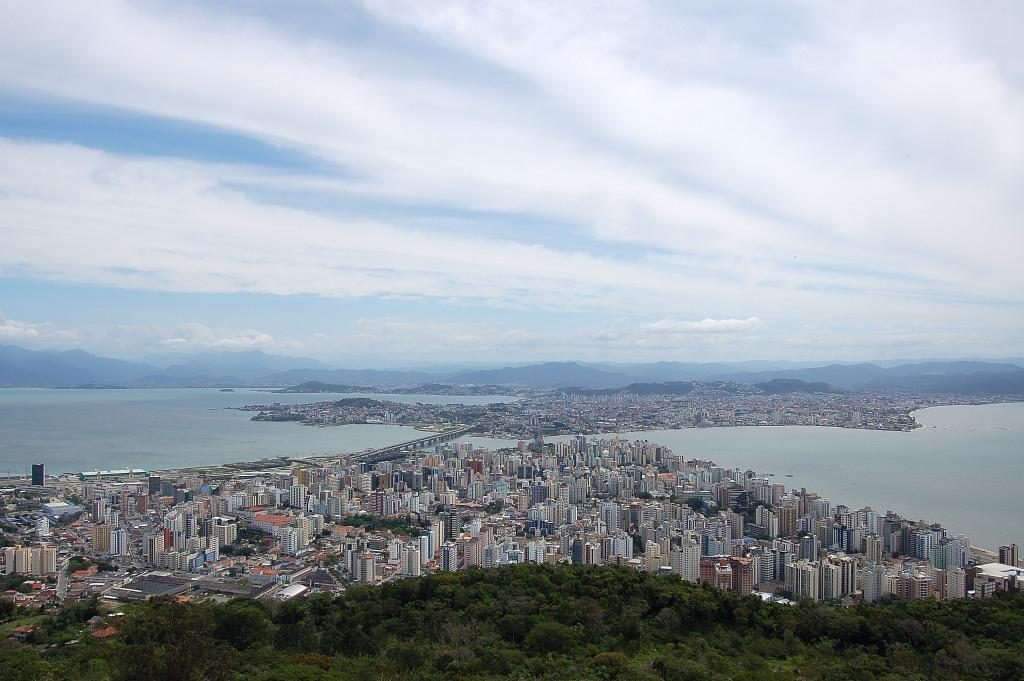 Downtown Florianópolis and continental area as seen from Morro da Cruz..